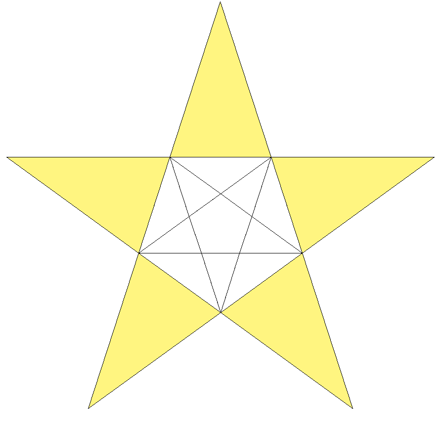 Facets of third stellation of dodecahedron